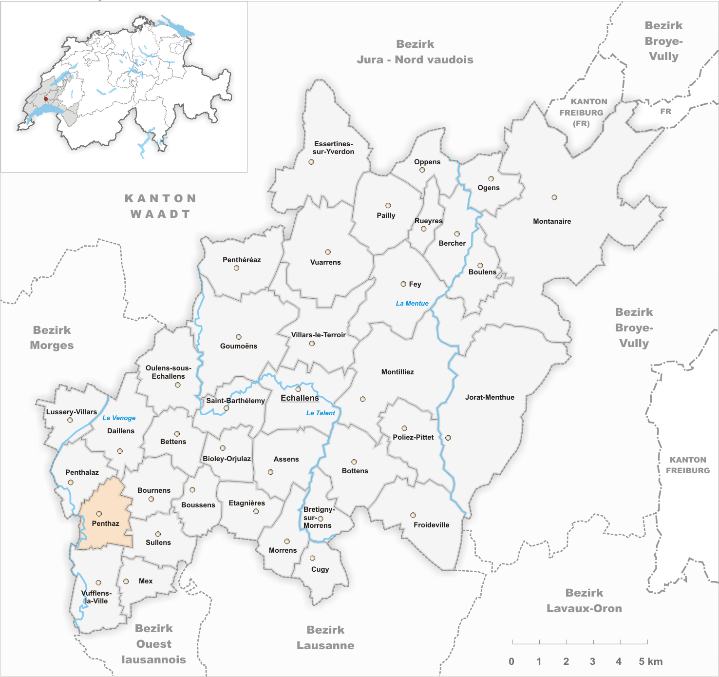 Municipality Penthaz